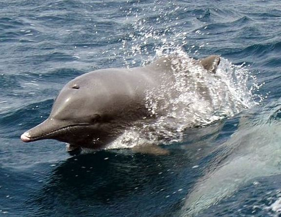 Dolphins following alongside the Dhow Musandam, Oman)